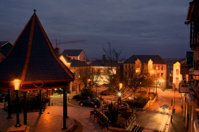 Letterkenny town centre.